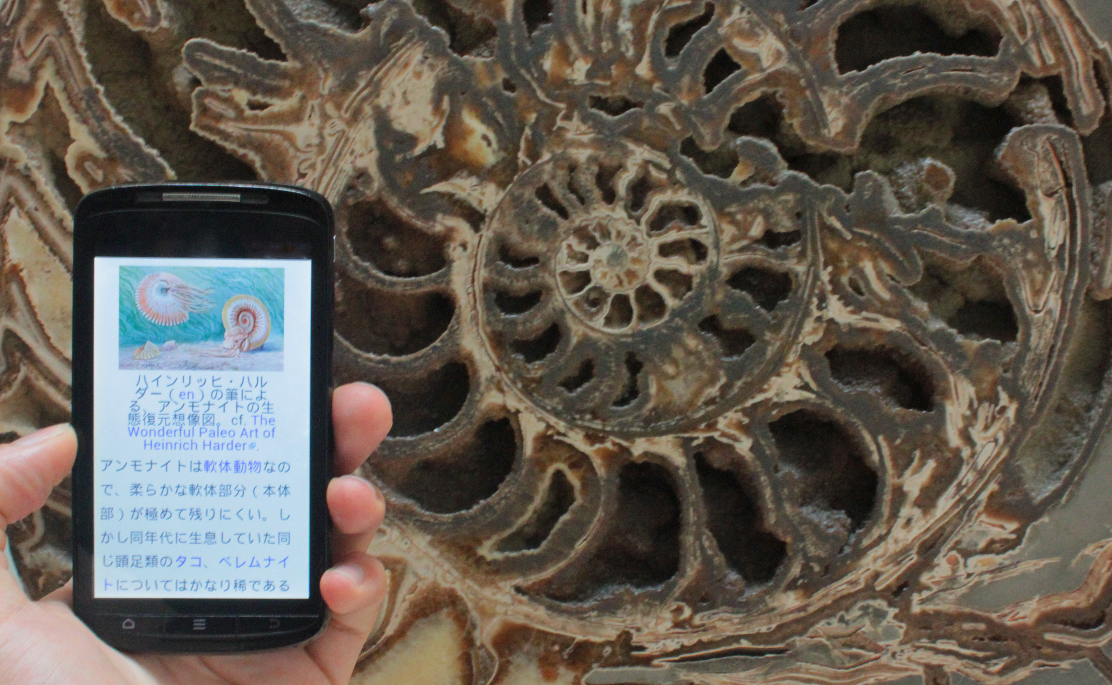 Wikipedia mobile app, article for ammonite in Japanese in front of an ammonite at the Natural History Museum, London